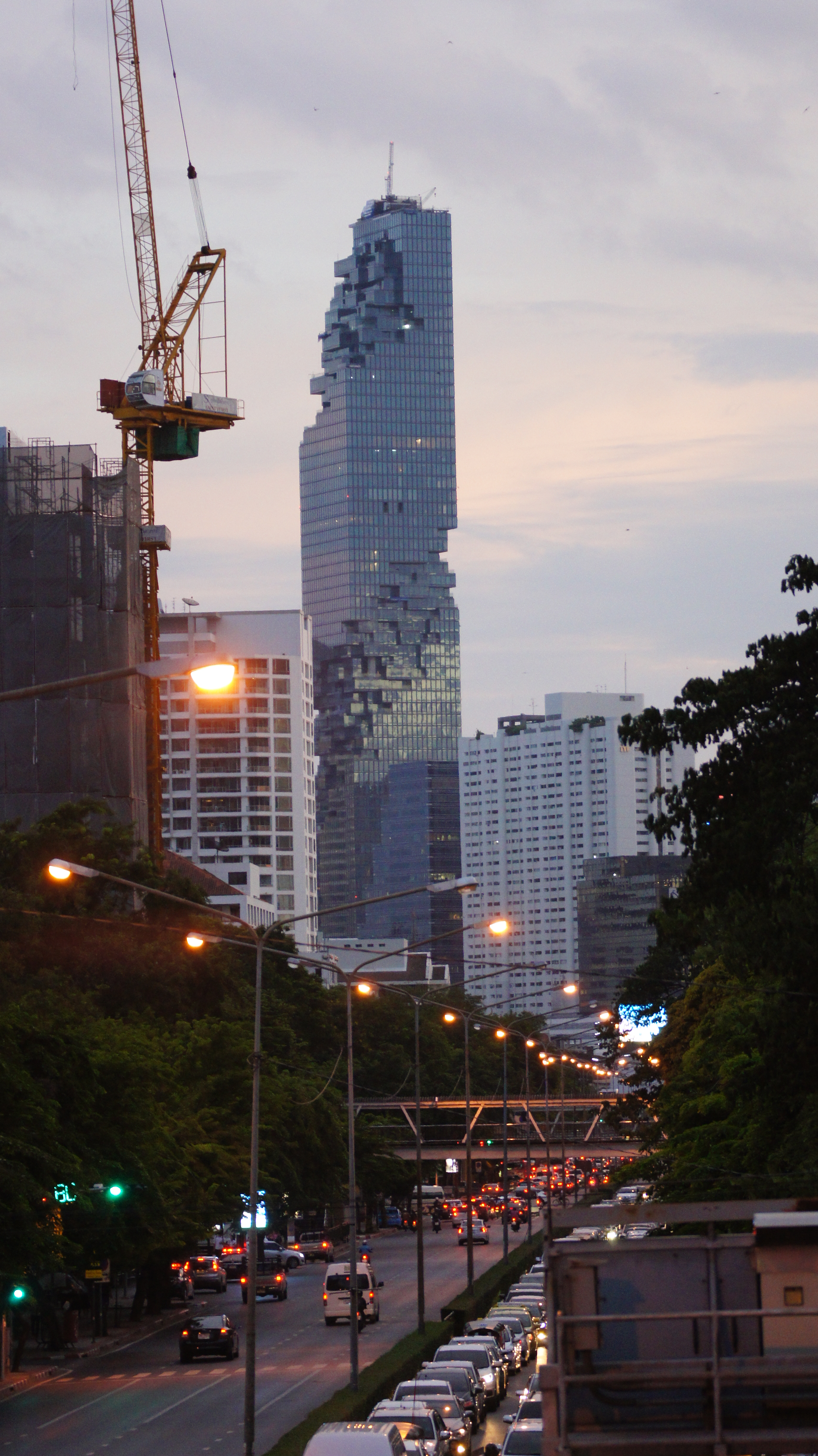 MahaNakhon skyscraper in 2017